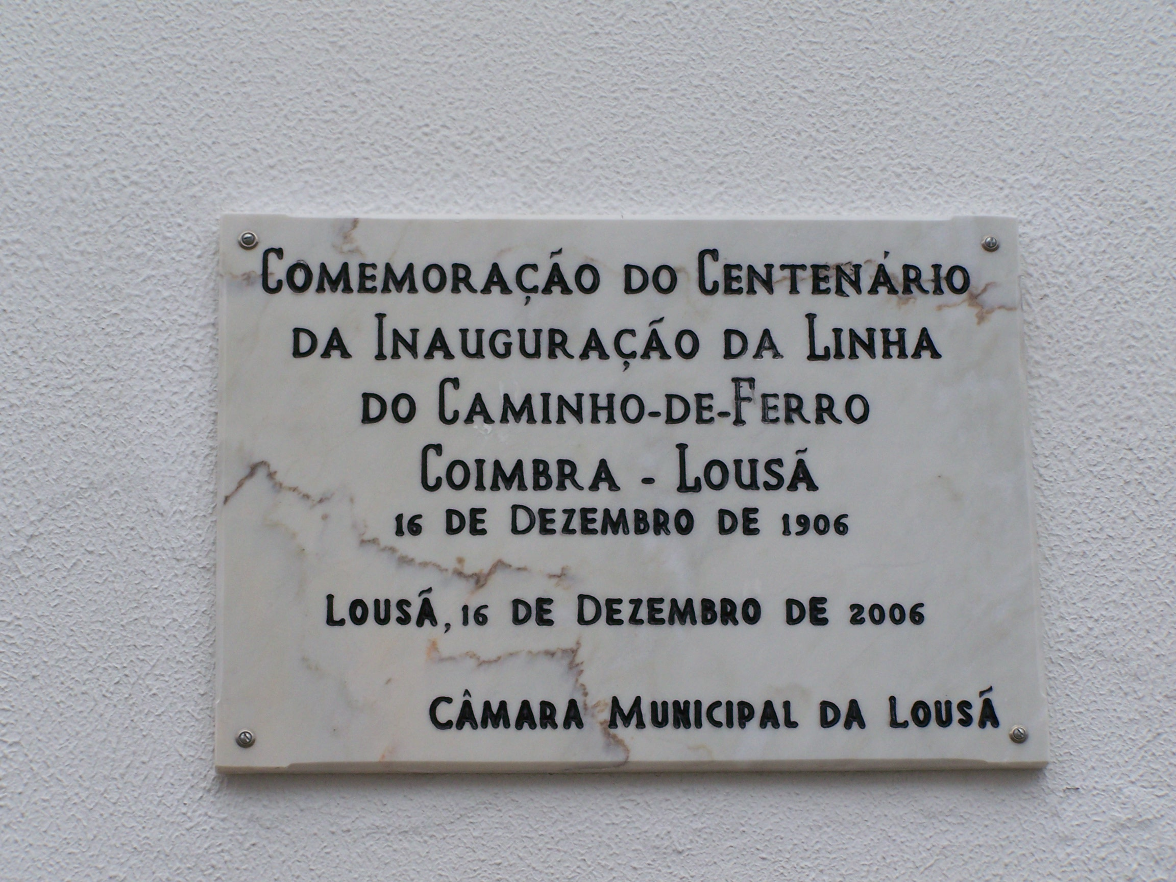 Commemoration plaque of the centenary of the Ramal da Lousã at the Lousã station, Lousã, Portugal